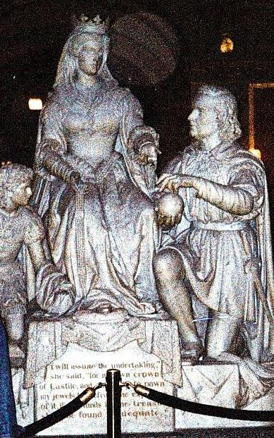 Statue of Queen Elizabeth I Isabella of Spain and Christopher ColumbusPlace: State Capitol, Sacramento, California